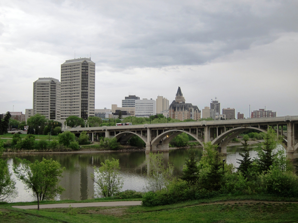 A gorgeous day by the river in Saskatoon